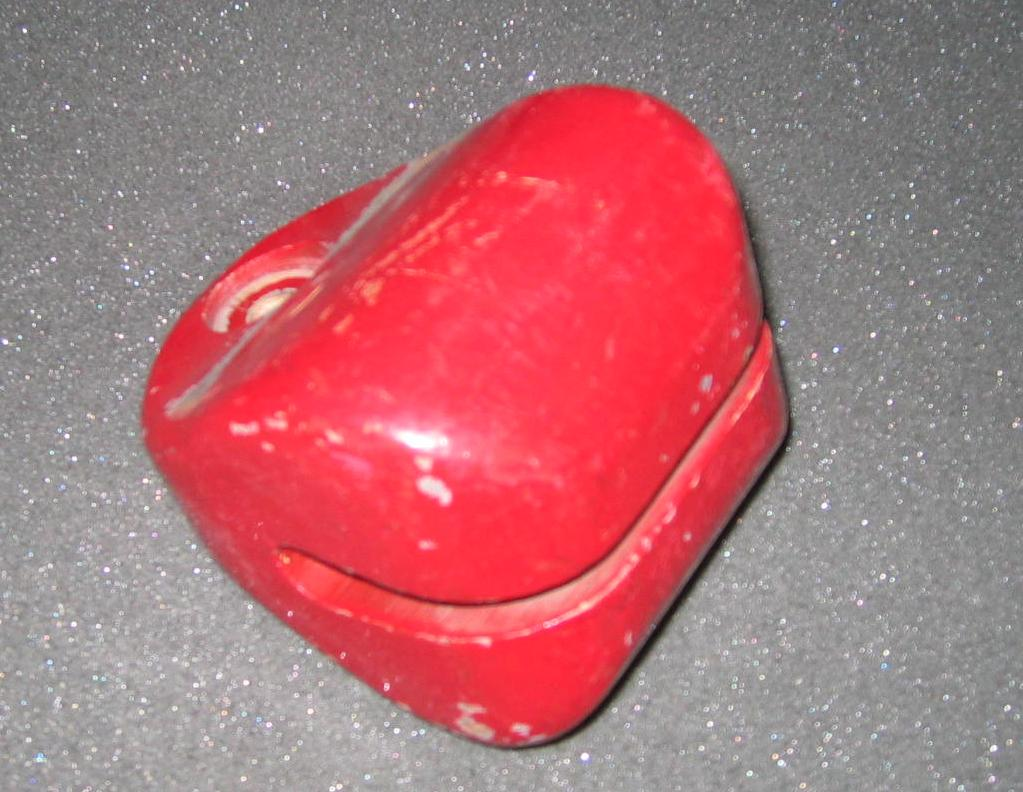 Temple block, percussion instrument